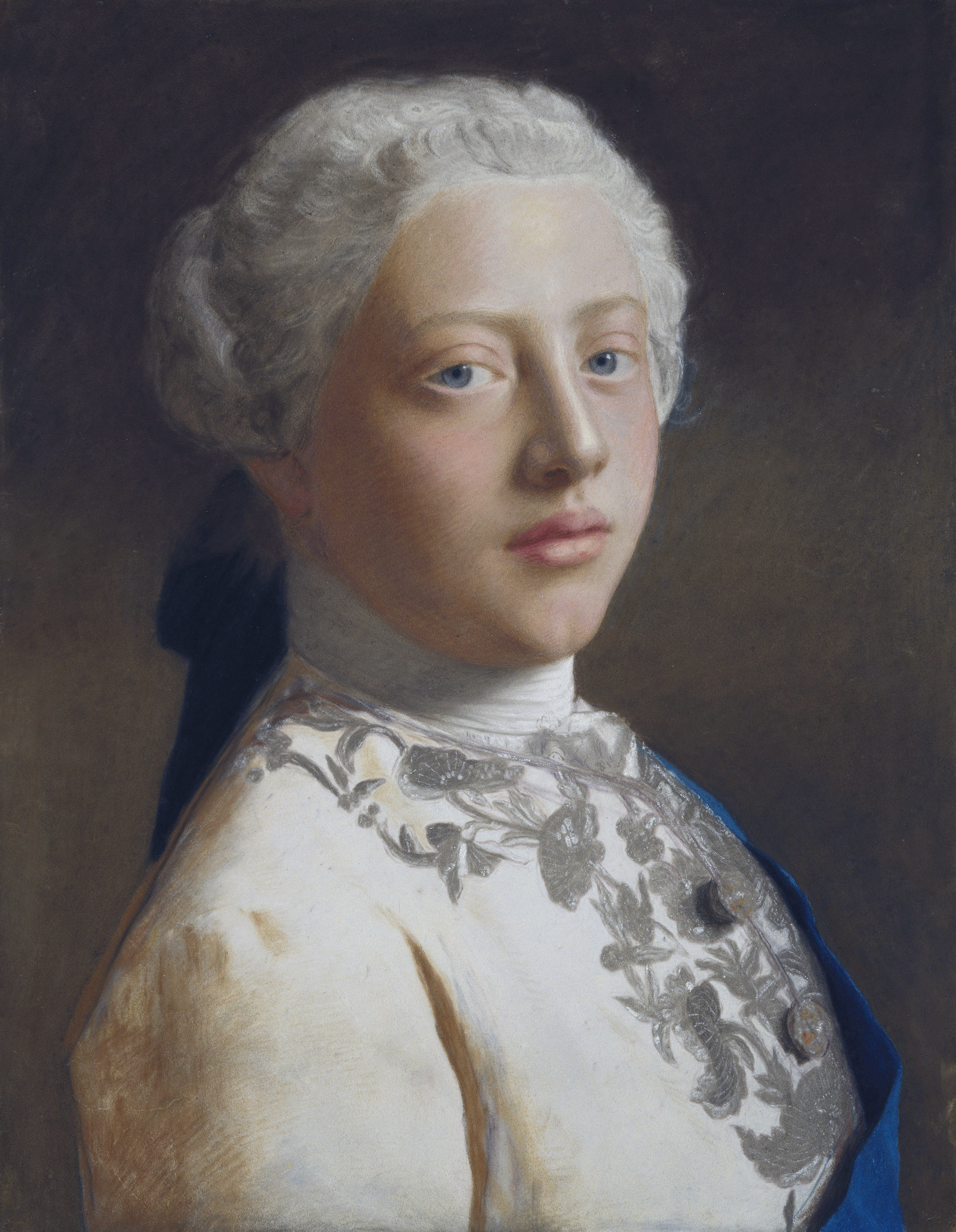 George, Prince of Wales (1738-1820) pastel on vellum 40.6 x 29.8 cm 1754